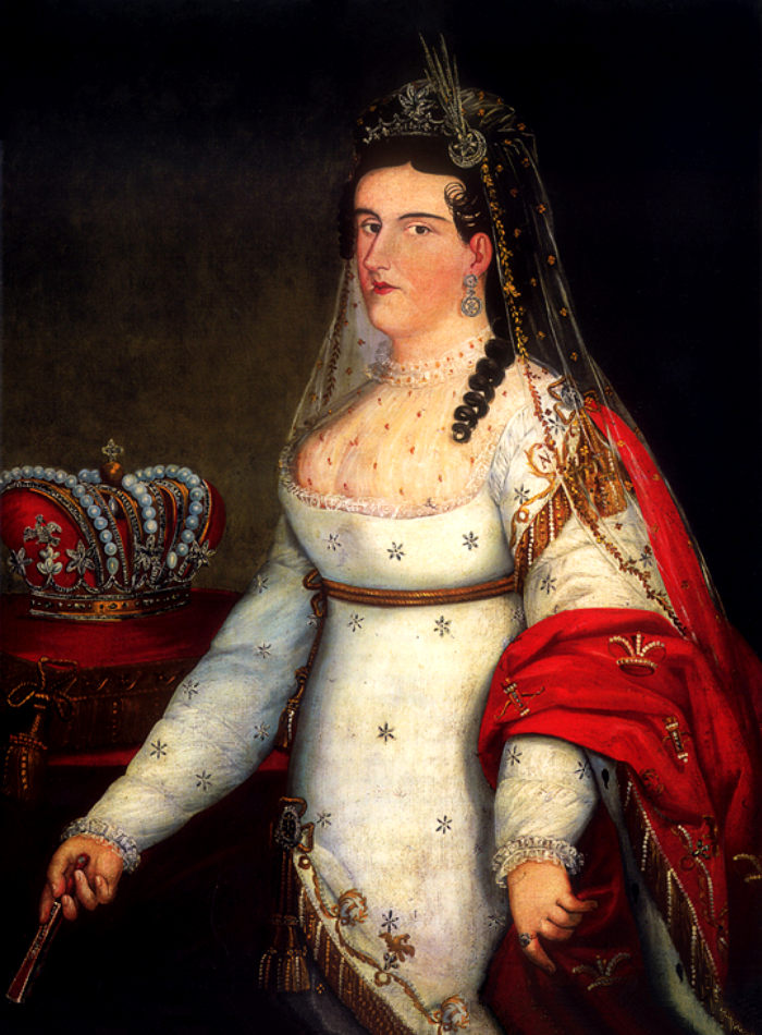 Portrait of Mexican Empress Ana María, consort of Agustín I